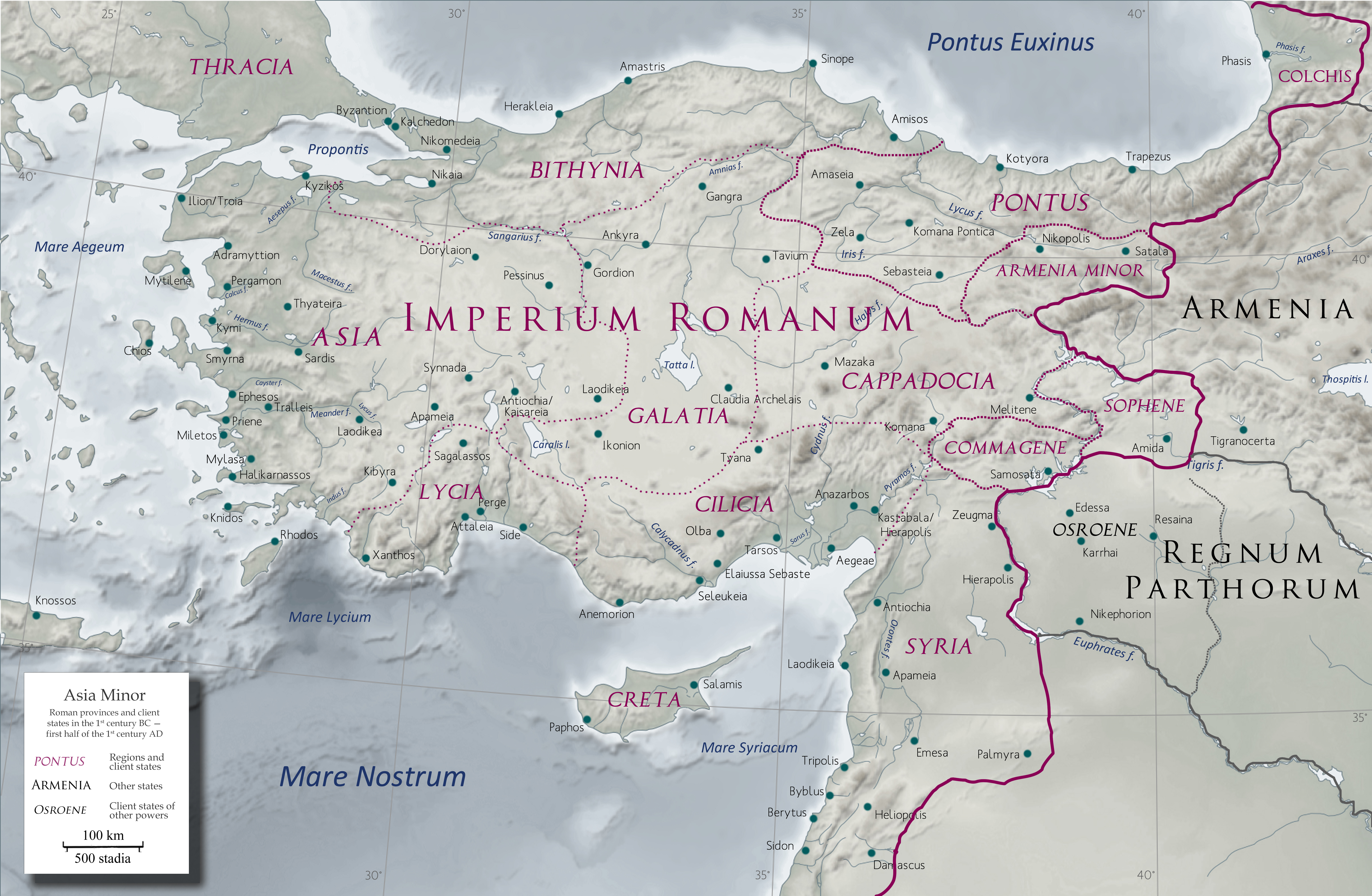 Asia Minor in the early 1st century AD - general map - provinces, client states and main settlements - bleached - English legend